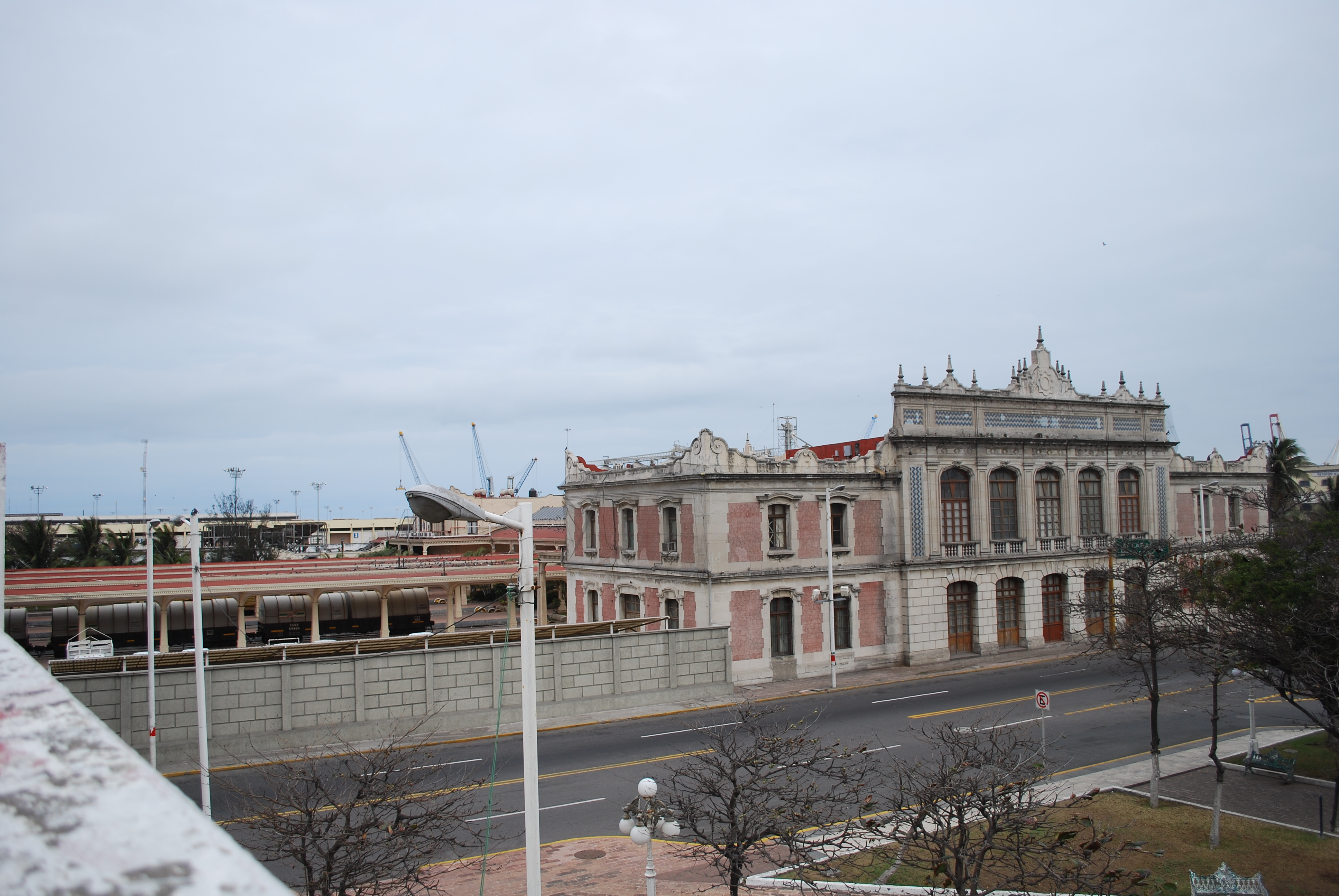 Old train station of Veracruz, Mexico